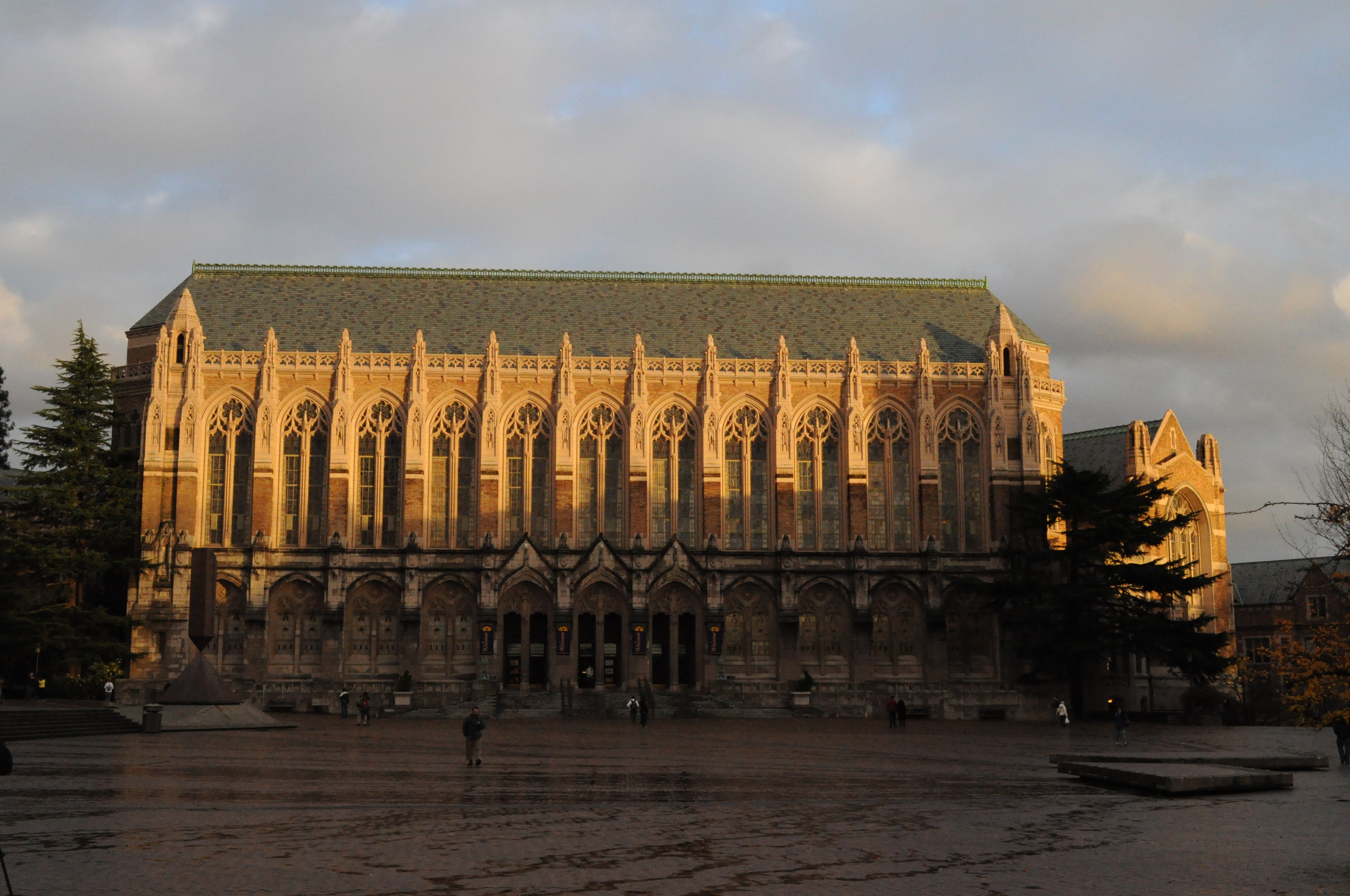 Suzzallo Library, University of Washington, Seattle, Washington, USA.